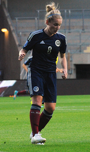 Kim Little playing for Scotland in September 2014 against Sweden